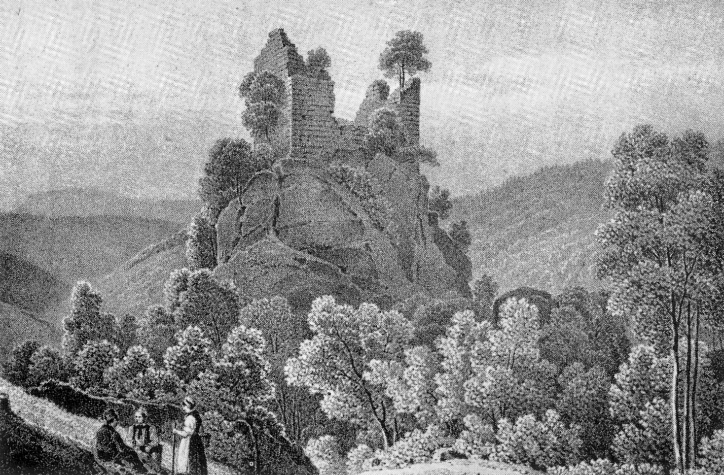 Lithograph of the Château de Bilstein nearby Urbeis, Alsace